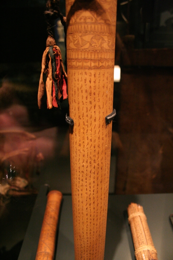 Bamboo inscribed with Simalungun Batak script (Museum Volkenkunde, Leiden, inventory no. 3138-1)